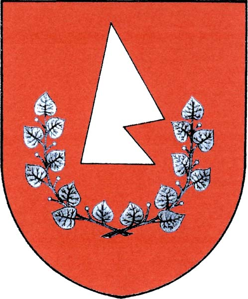 Municipal coat of arms of Česká village, Brno-Country District, Czech Republic.